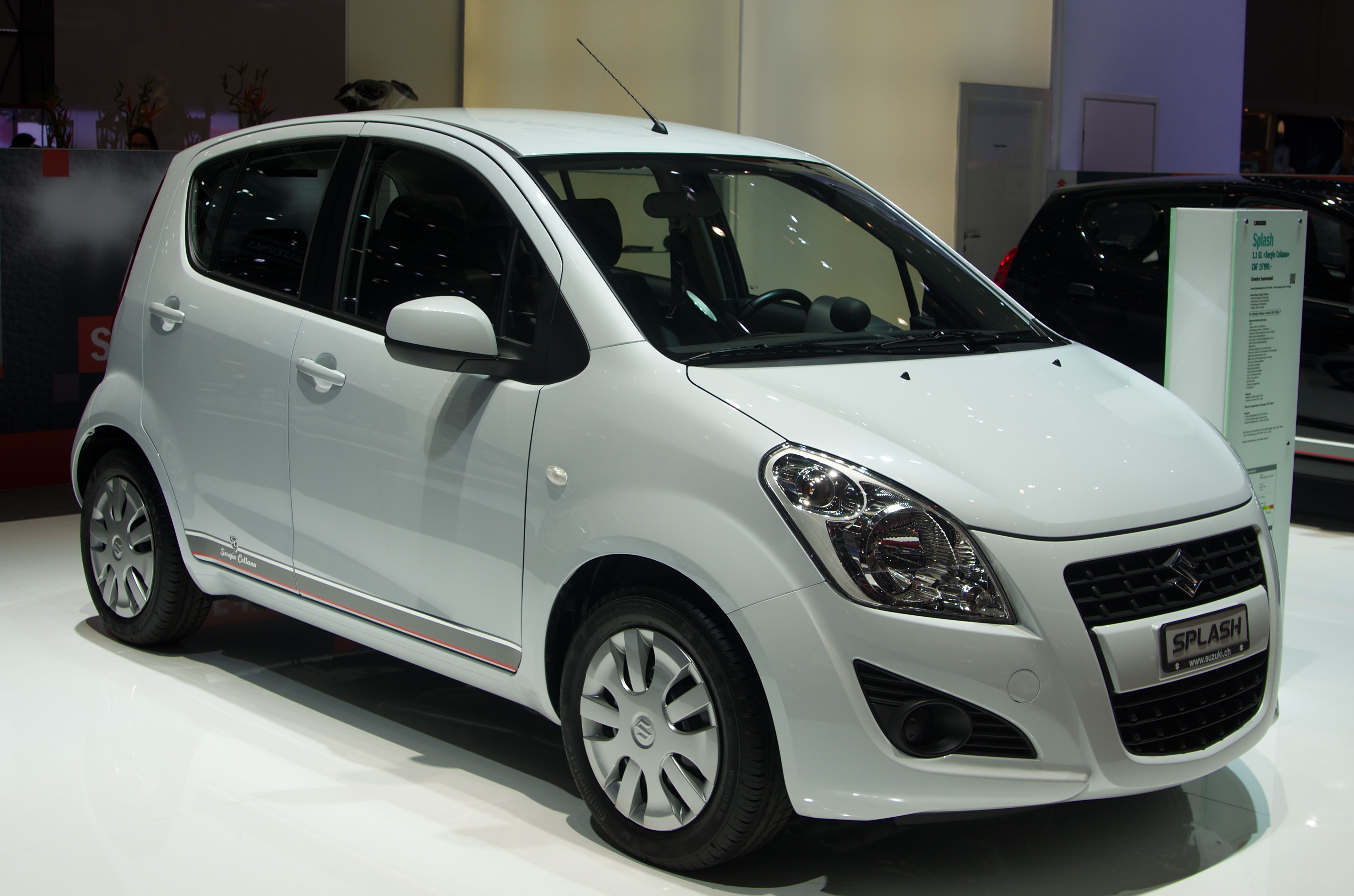 Geneva MotorShow 2013 - Suzuki Splash